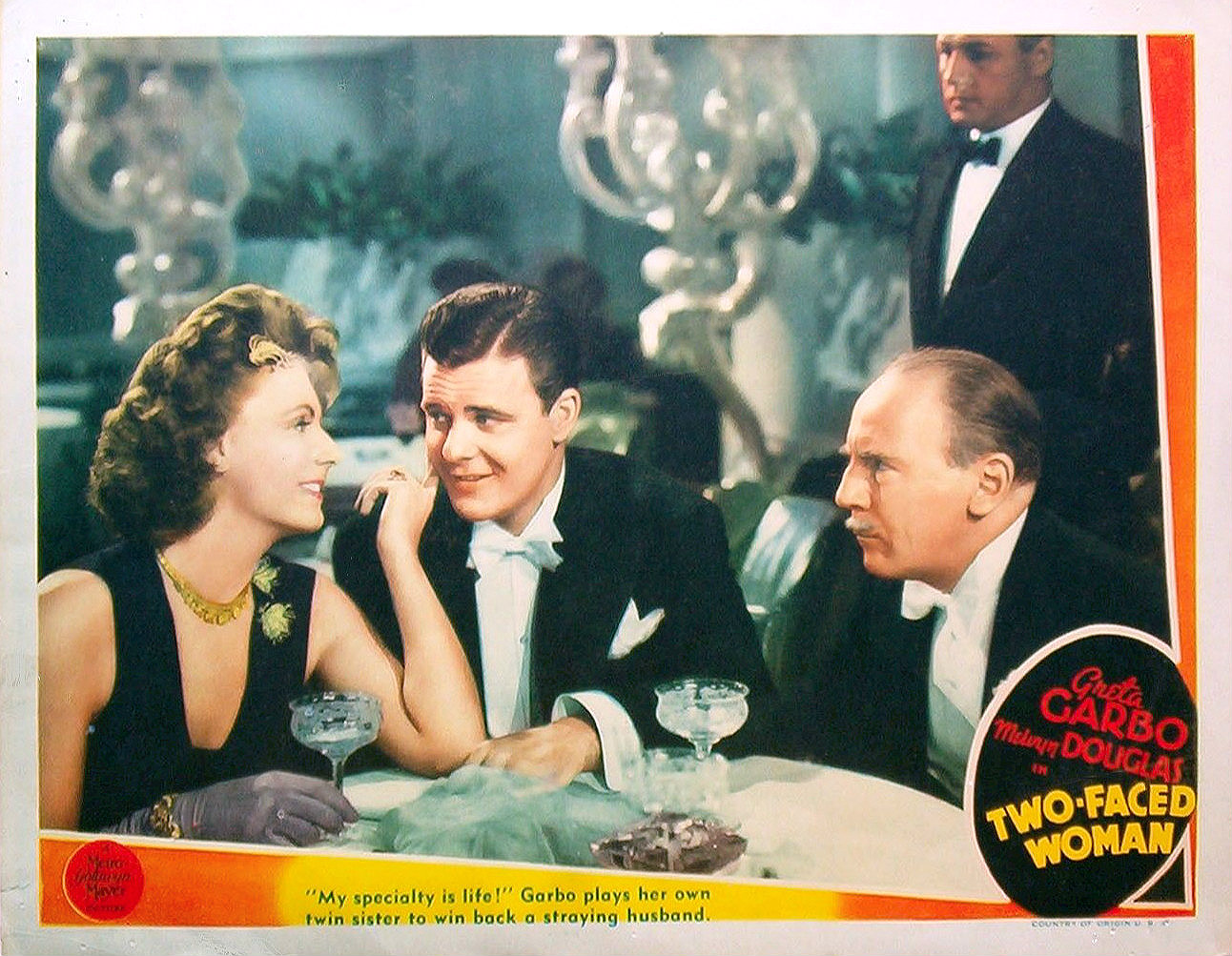 Lobby card for the film Two Faced Woman (1941).